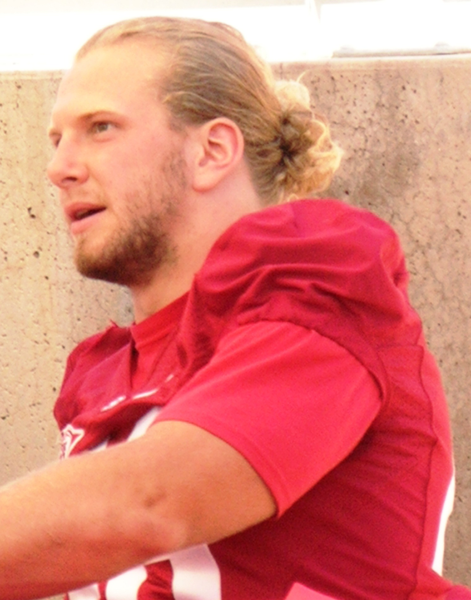 Stanford fulback/linebacker Owen Marecic at the football open house at Stanford Stadium.